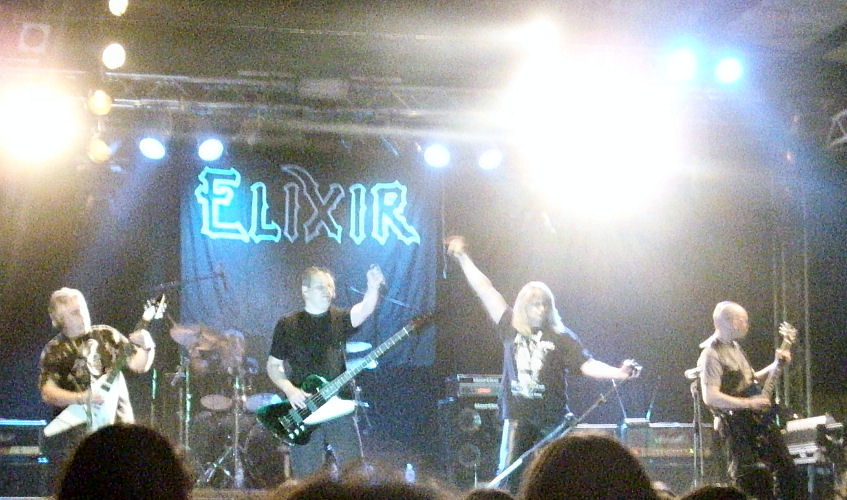 Elixir live at British Steel Fest in Bologna, Italy on 07 November 2010